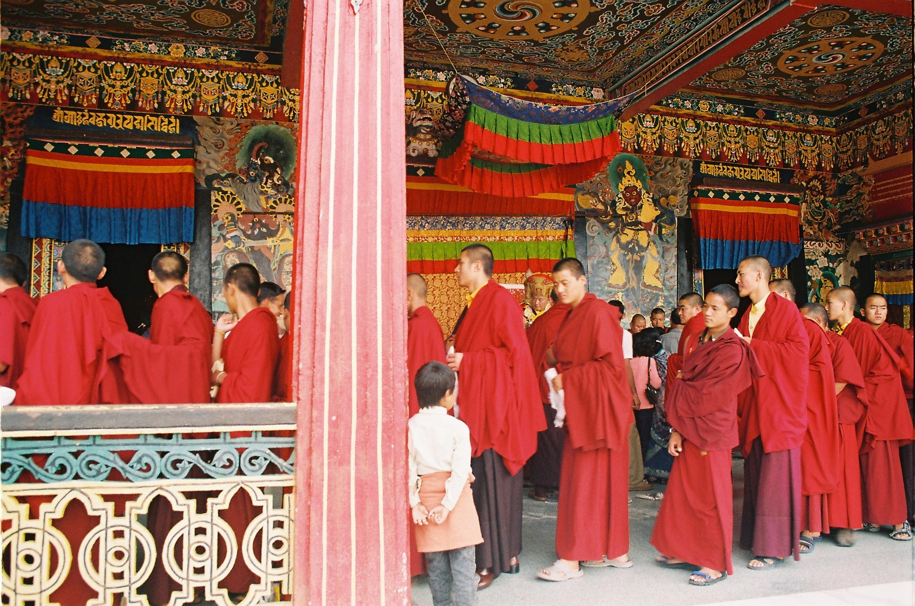 Lamas at the Rumtek monastery in Sikkim.